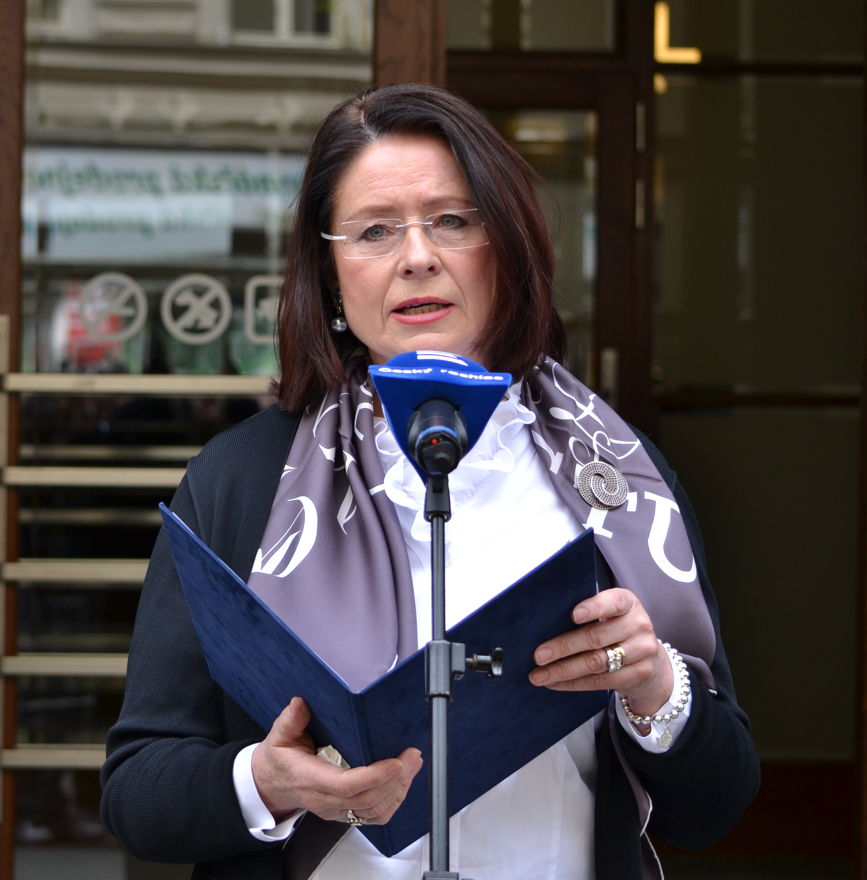 Miroslava Němcová, Chairperson of the Czech Parliament